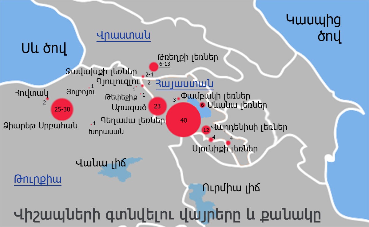 Vishaps location on map